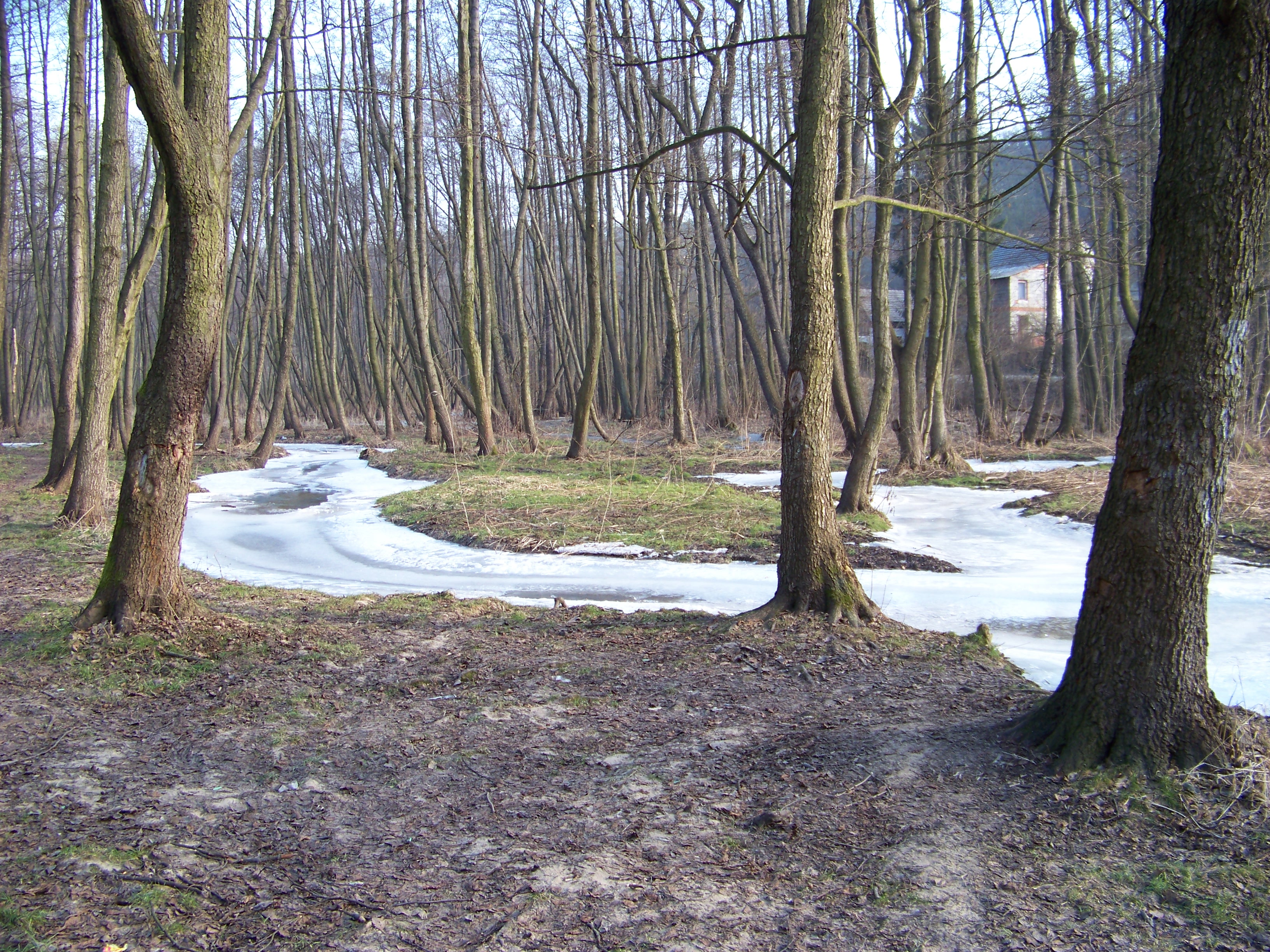 Želízy, Mělník District, Central Bohemian Region, the Czech Republic. Wetland of lower Liběchovka. - Google Maps - Google Earth